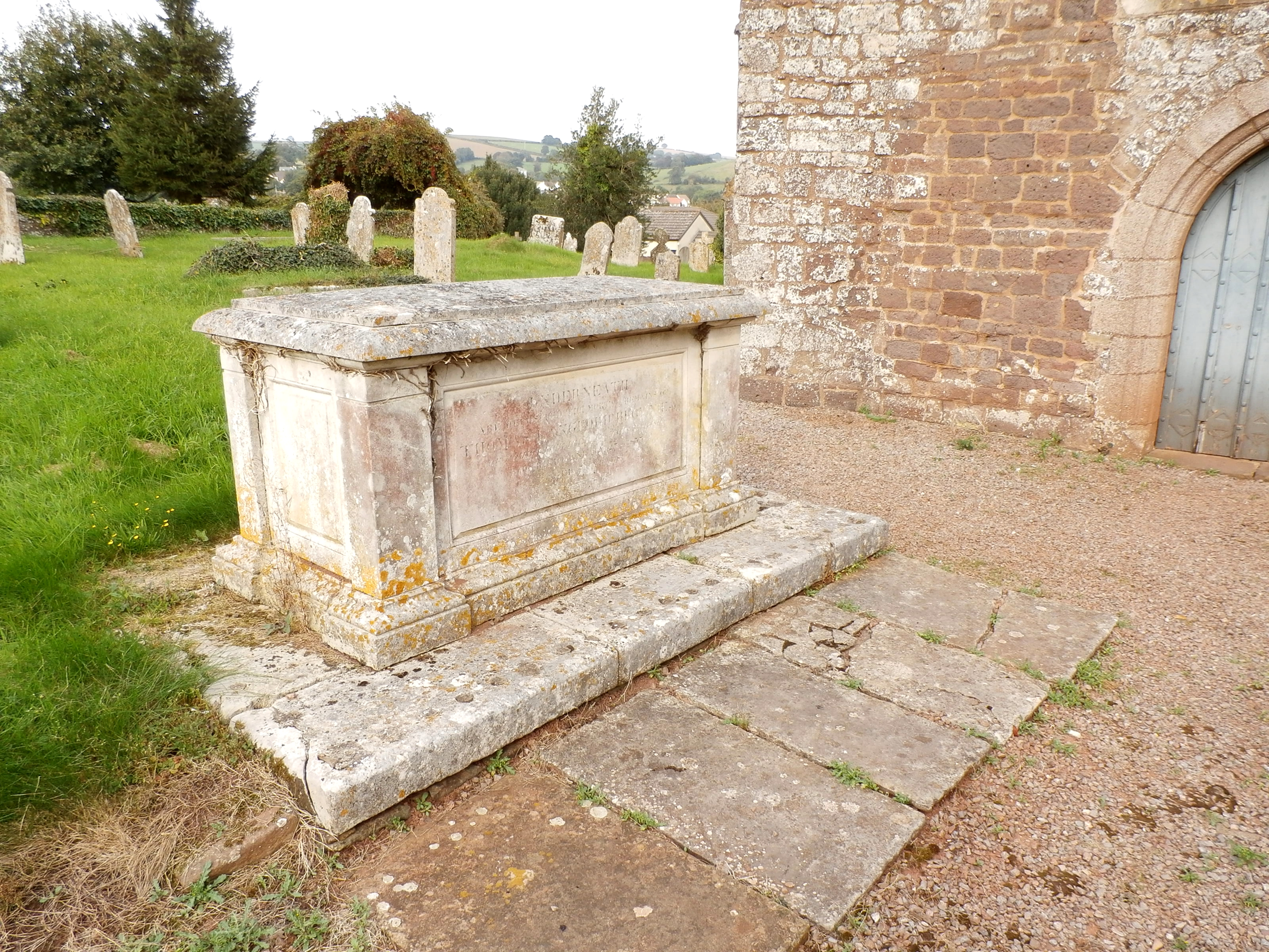 Chest tomb of Thomas II Langford Brown (1762-1833) of Combe Satchfield, Silverton, Devon, outside west door of Silverton Church. Inscribed on south side (visible here) as follows: Underneath are deposited the mortal remains of Thomas Langford Brown Esqr. (of Comb Satchfield in this parish) who died January 27th 1833 aged 71 years". Inscribed on north side: Here also are deposited the remains of Thomas Langford Brown who died June 3rd 1849 aged 45 and of Edwin Langford Brown who died June 8th 1849 aged 39